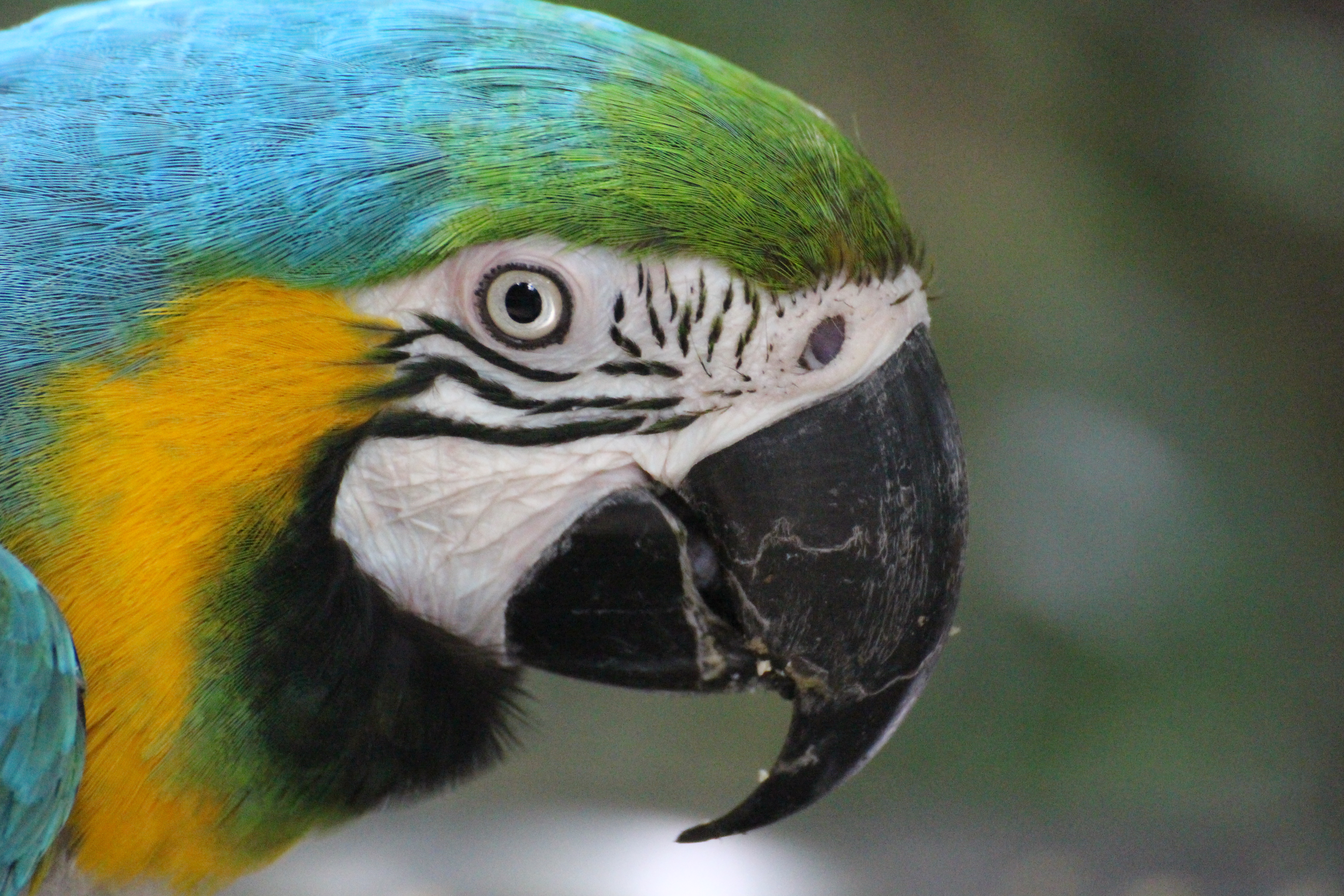 A bird